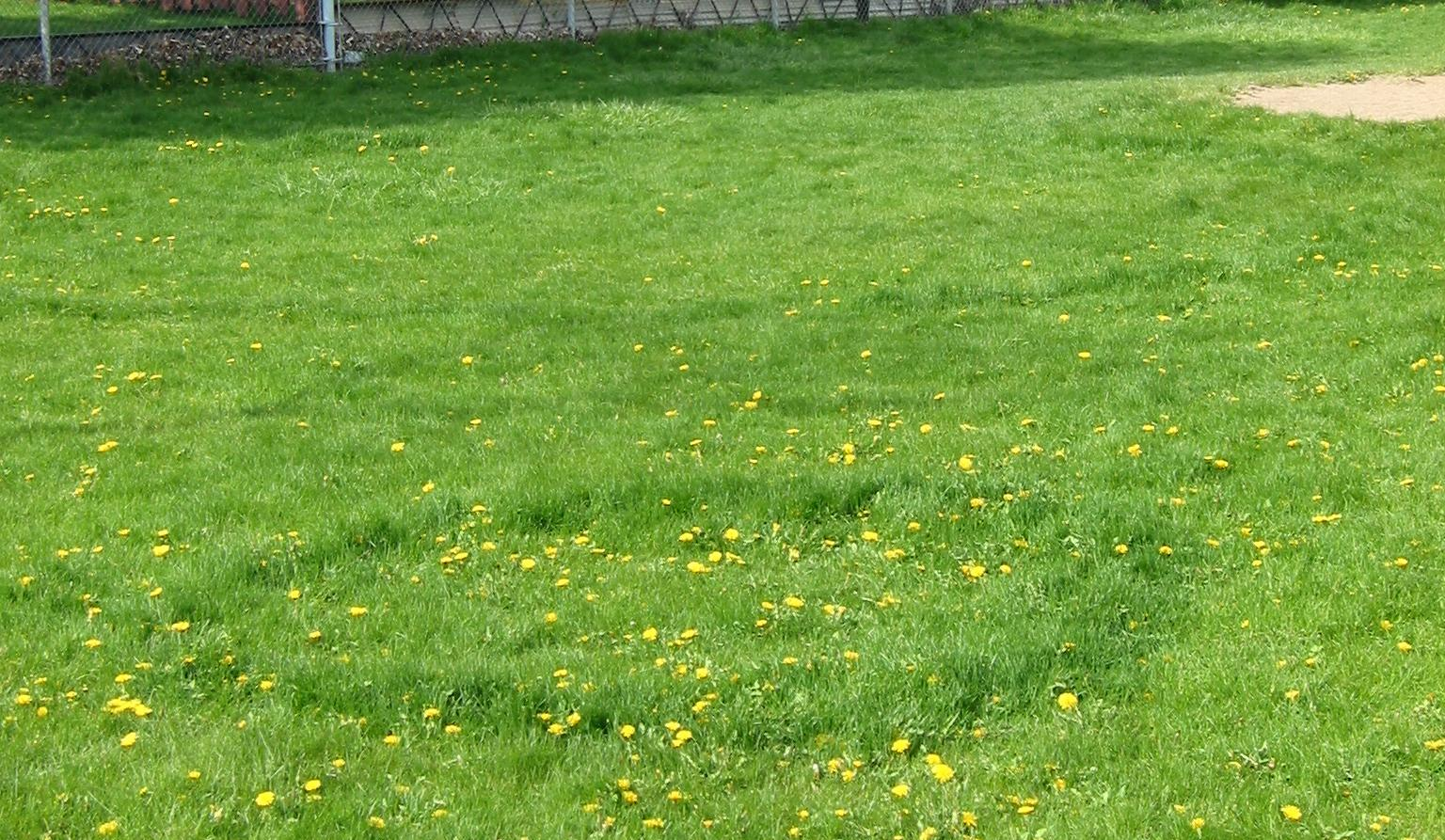 Two fairy rings marked by uneven grass growth -- no mushrooms showing -- in a school field in Scarborough, Ontario, Canada. Date: 7 May 2006. This image is the uploader's own work and may be considered PD.